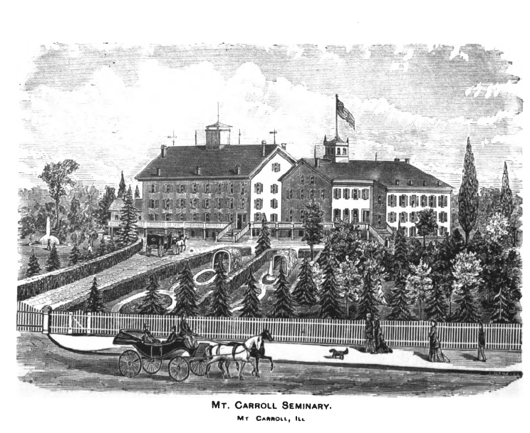 Plate from Fifty Years' Recollections by Jeriah Bonham, published 1883. Depicts the Mount Carroll Seminary, which later became Shimer College, in Mount Carroll, Illinois, USA.